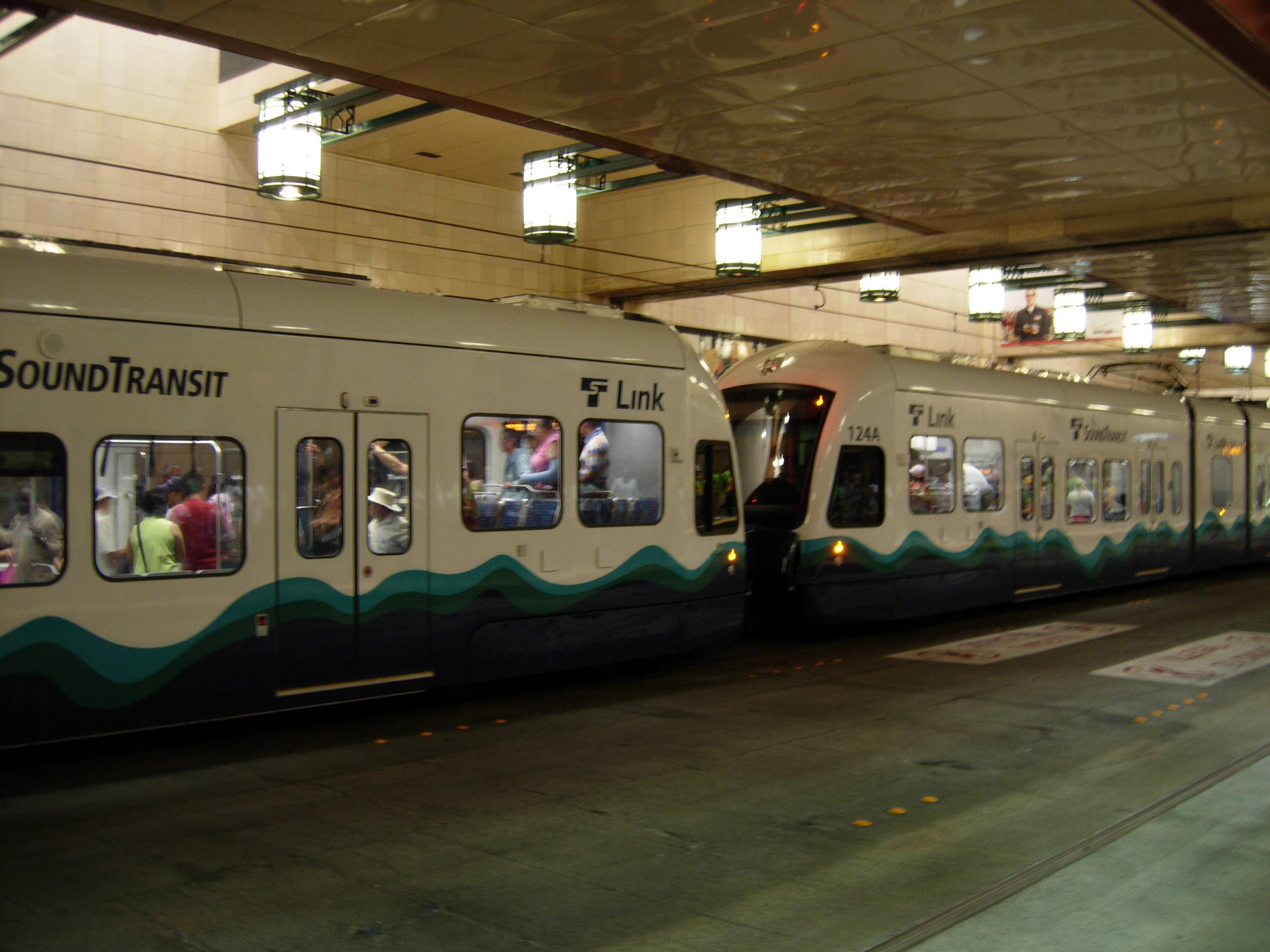 I took this photo myself 7-18-2009.